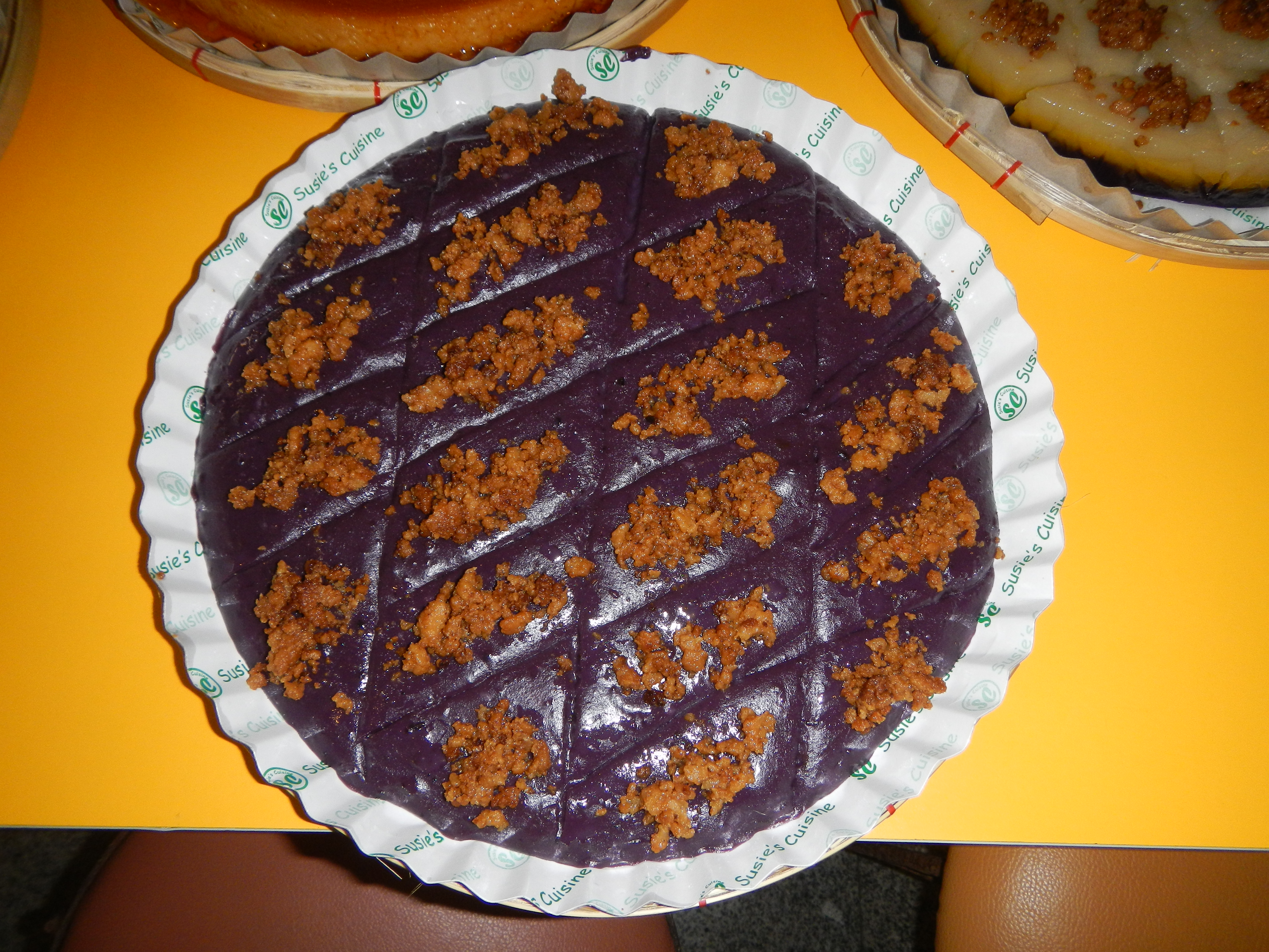 Desserts of the Philippines Rice cake, among others of Susie's Cuisine, one of Pampanga's top Kakanin restaurants and food shops.